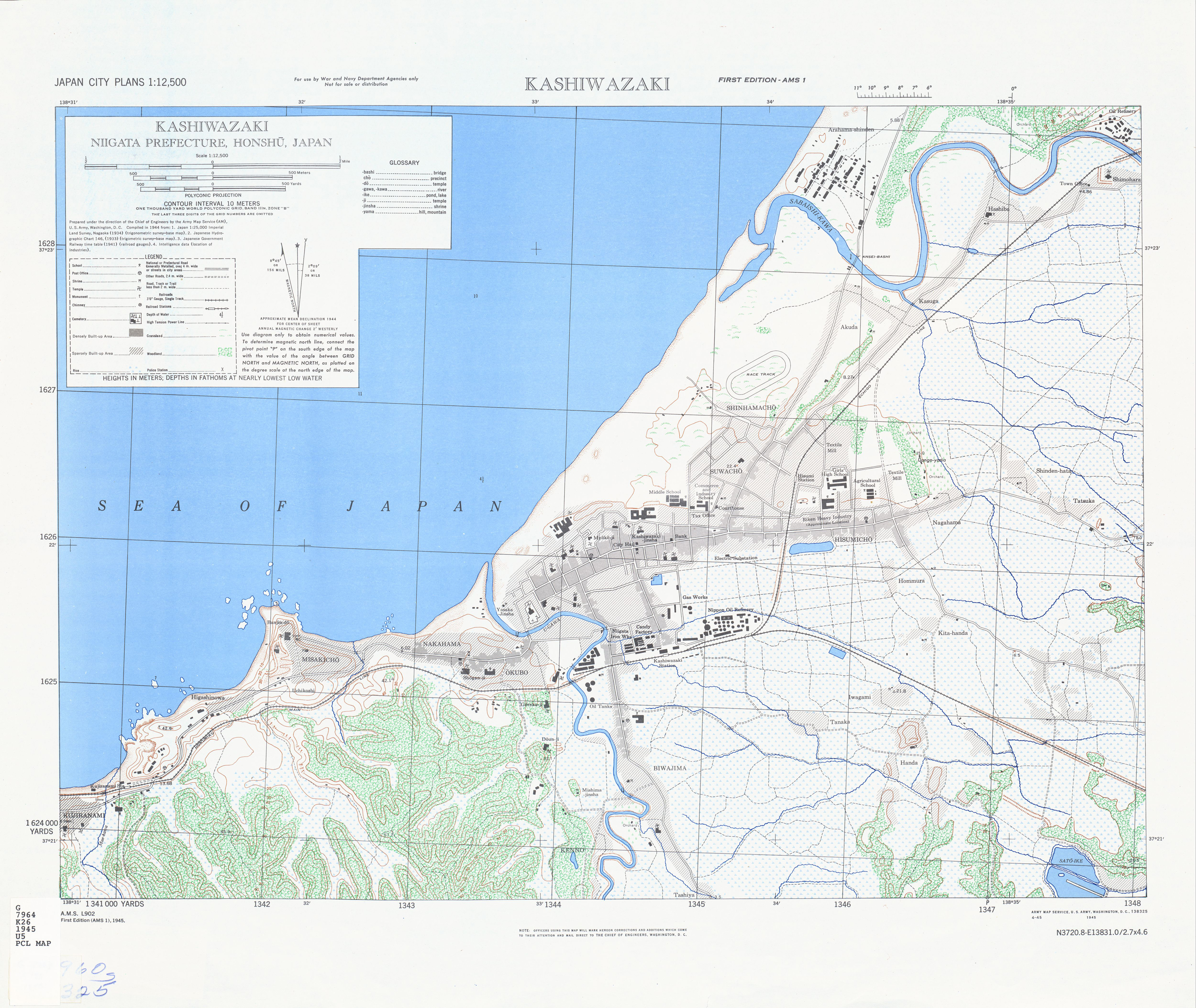 Map of Kashiwazaki, Niigata Prefecture, Japan by U.S. Army Map Service, 1945. Compiled in 1944 from: 1. Japan 1:25,000 Japanese Imperial Land Survey, Nagaoka, (1934) 2. Japanese Hydrographic Chart 146, (1933) 3. Japanese Government Railway Timetable (1941) 4. Intelligence data